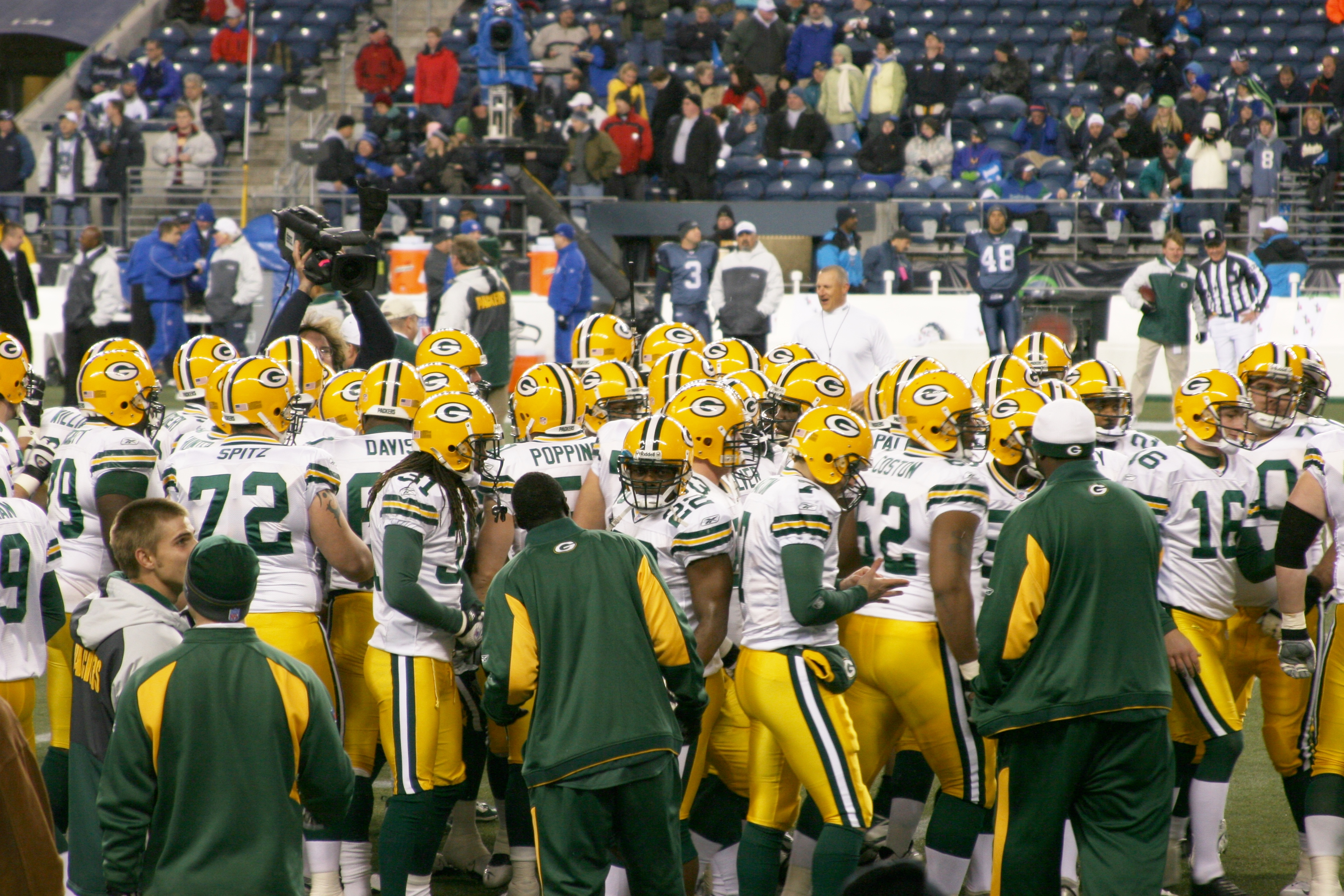 Green Bay Packers players huddle before a Monday Night Football game in Qwest Field of Seattle in 2006.